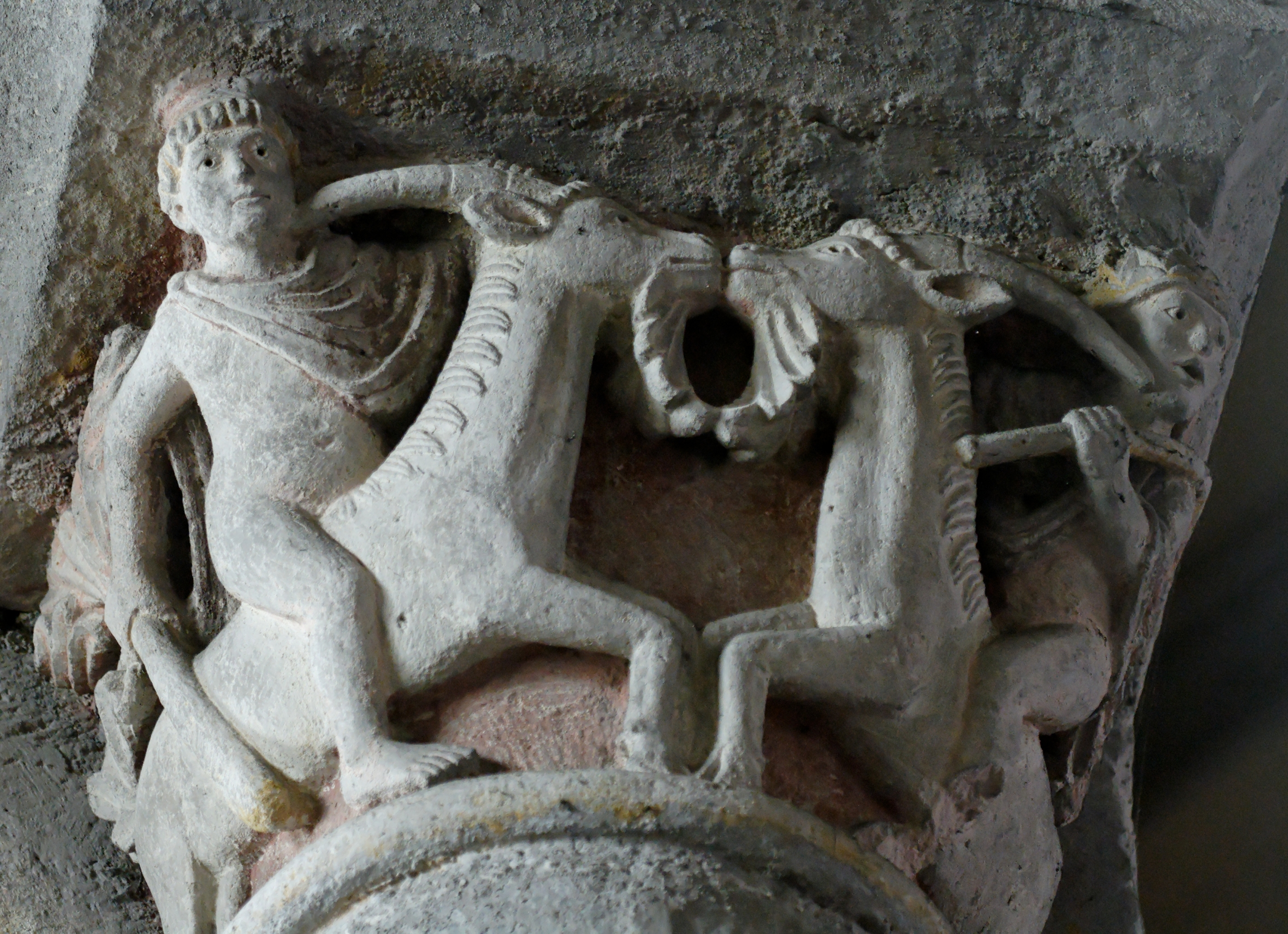 Youths riding goats. Sculpted capital from the nave of the abbey-church in Mozac, 12th century.